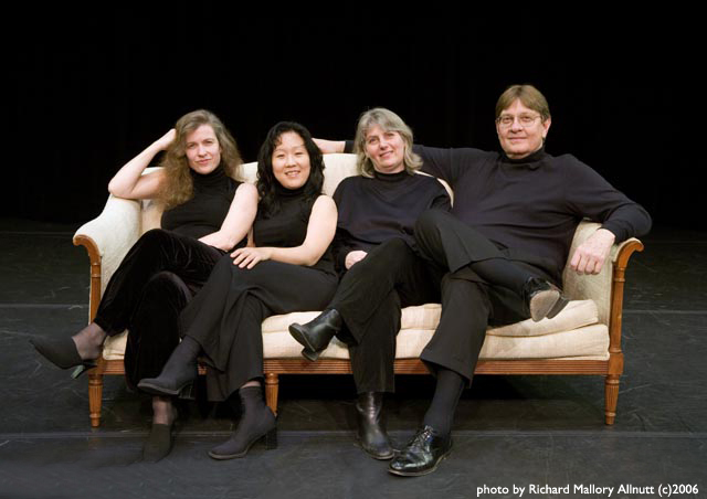 Audubon Quartet sitting backstage